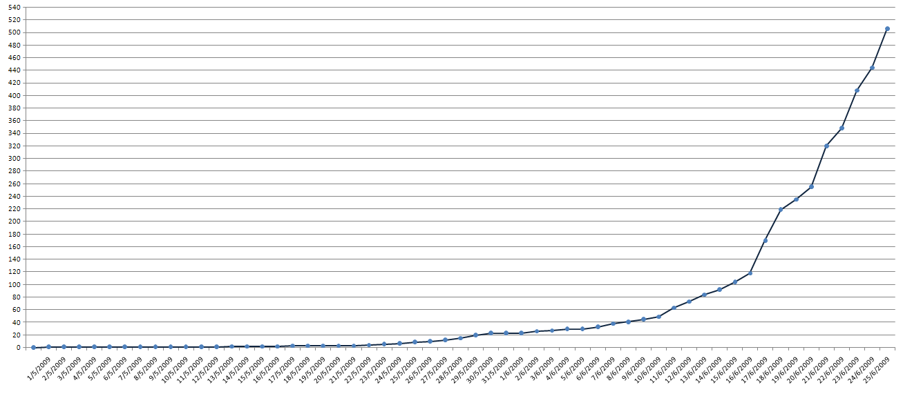 The cumulative frequency of daily H1N1 influenza A confirmed cases number in Hong Kong. (Up to 25 June, 2009) 中文（香港）: 香港每日人類豬流感累積確診個案數目。 (直至2009年6月25日)